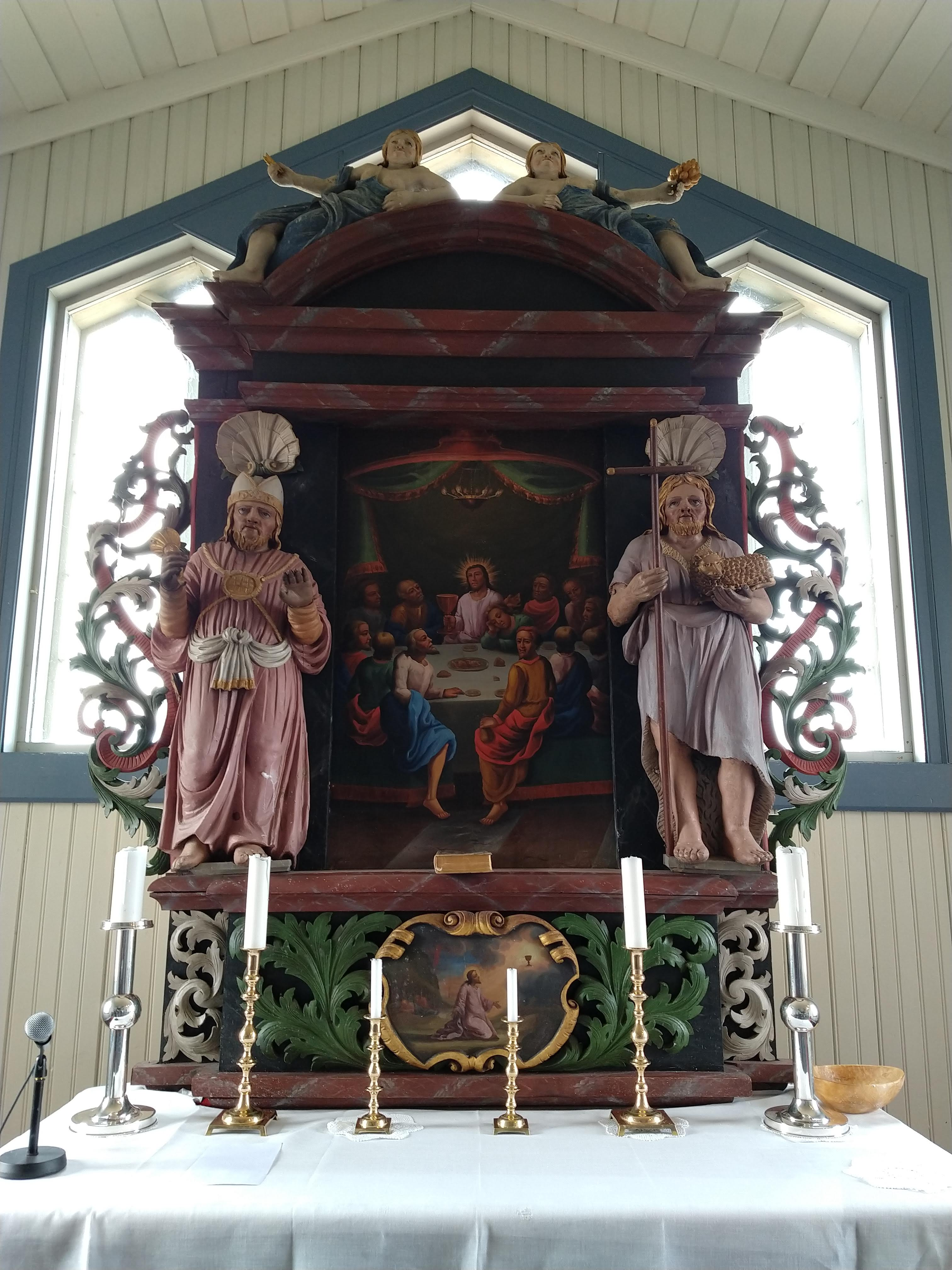 Altar piece Nesseby church